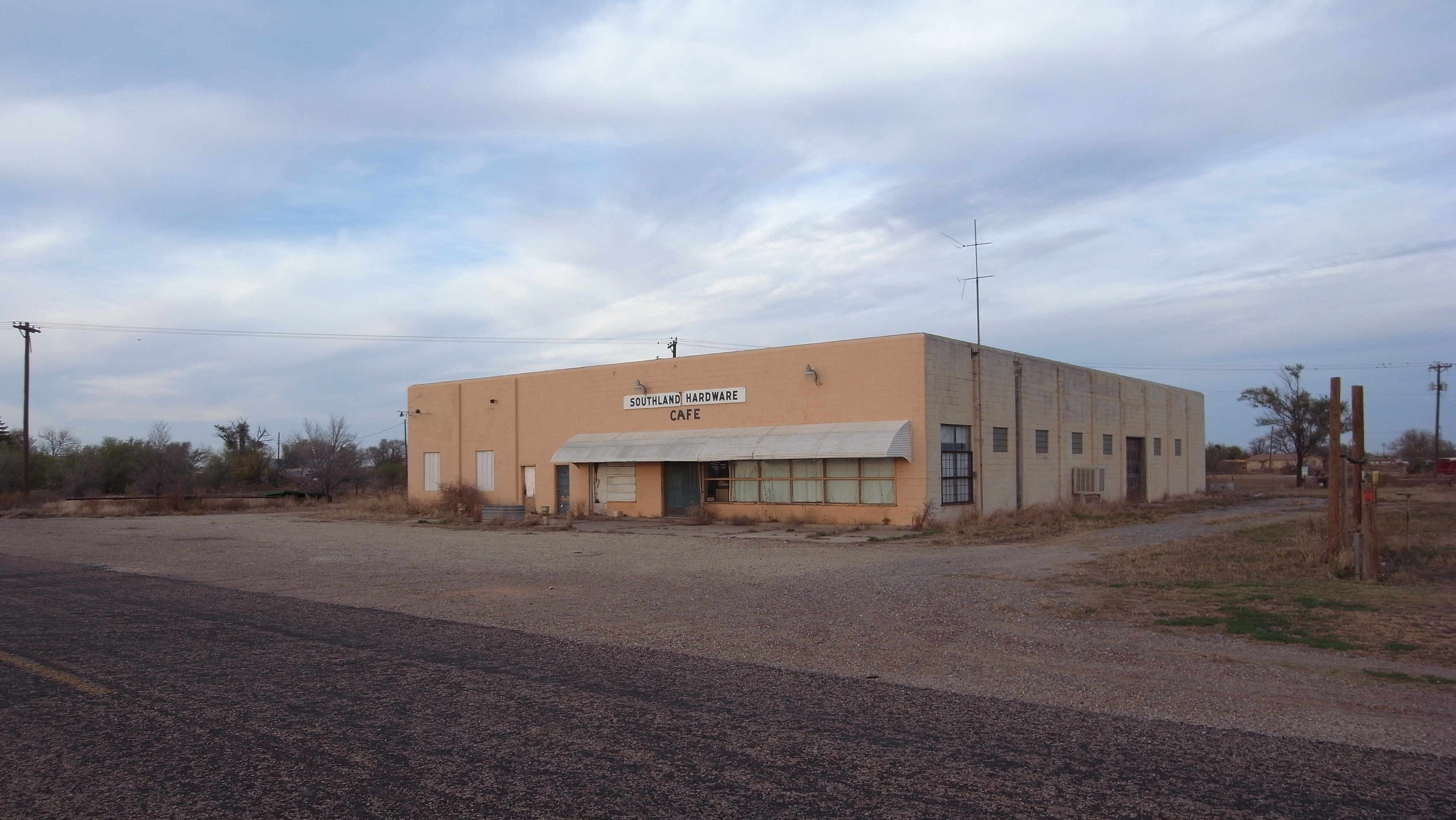 Southland Hardware/Cafe on the west side of Southland, Texas.